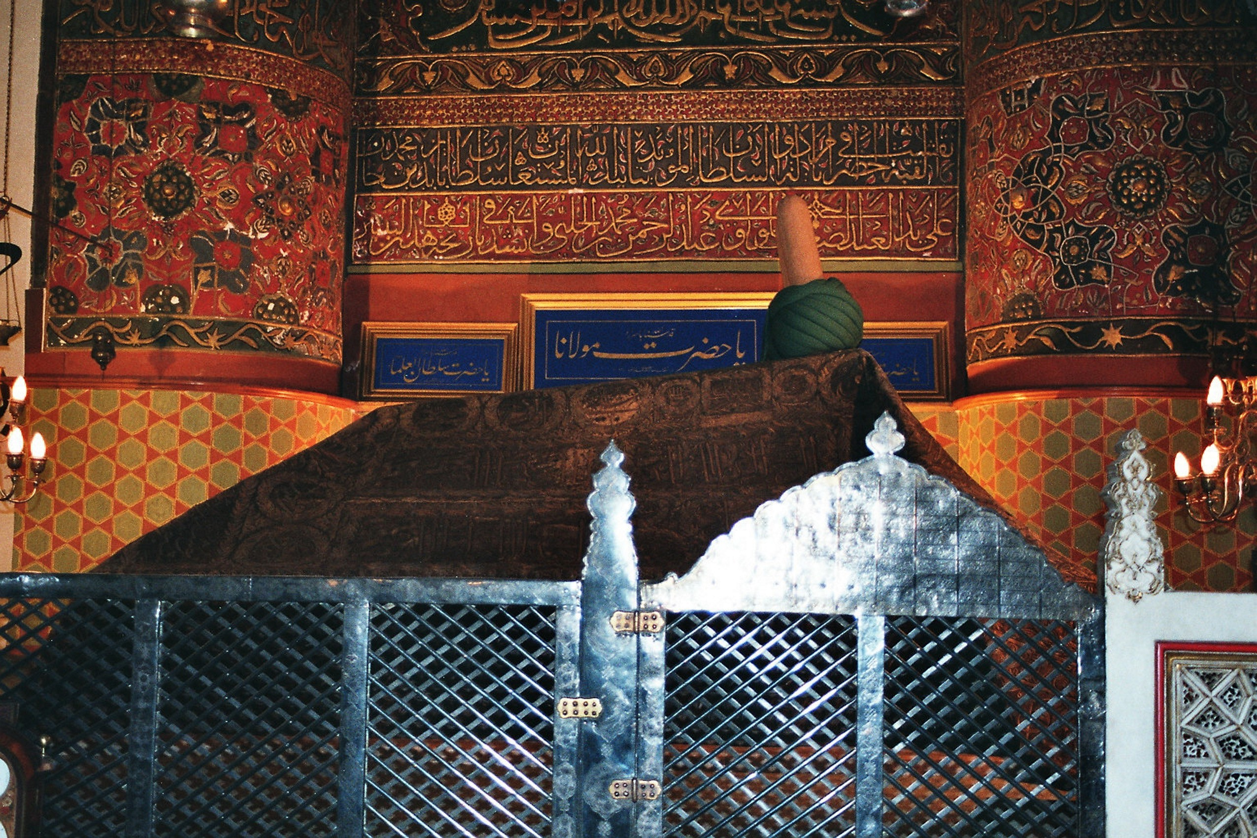 Konya, Mevlana museum, inside